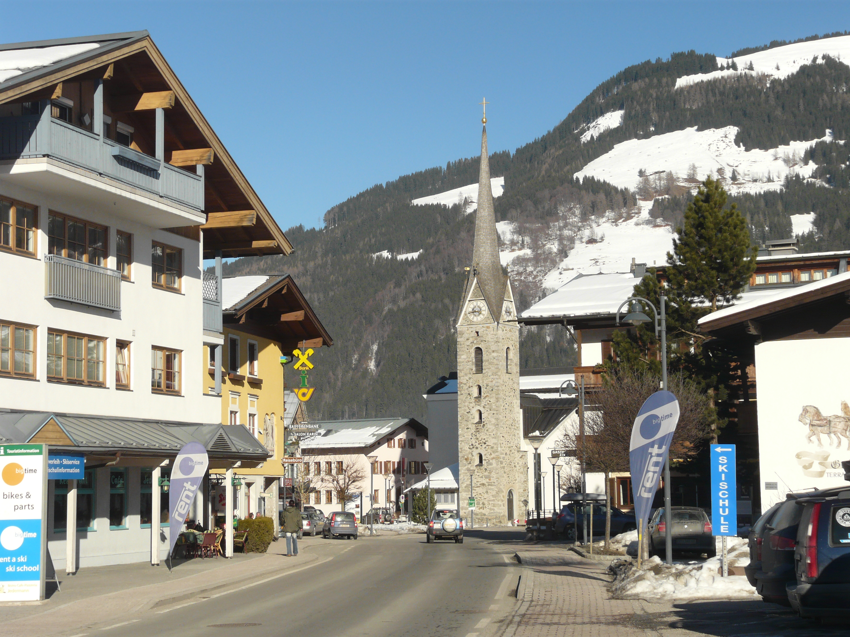 The community of Maishofen